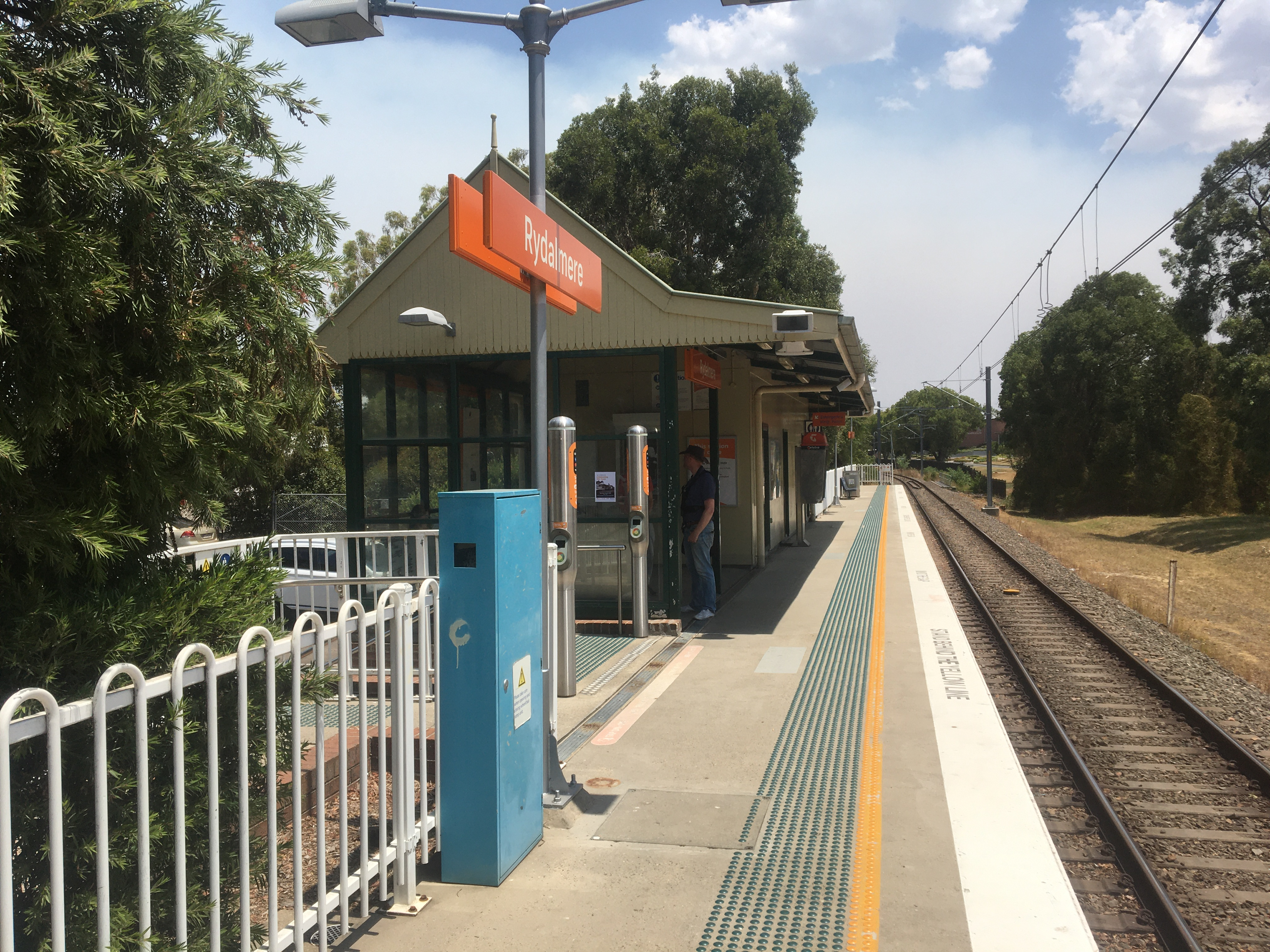 Date: 04 January 2020 Author: RidingStuff Desc: Photo of Rydalmere on last day of operation License: This file is made available under the Creative Commons CC0 1.0 Universal Public Domain Dedication. The person who associated a work with this deed has dedicated the work to the public domain by waiving all of their rights to the work worldwide under copyright law, including all related and neighboring rights, to the extent allowed by law. You can copy, modify, distribute and perform the work, even for commercial purposes, all without asking permission. Own work.